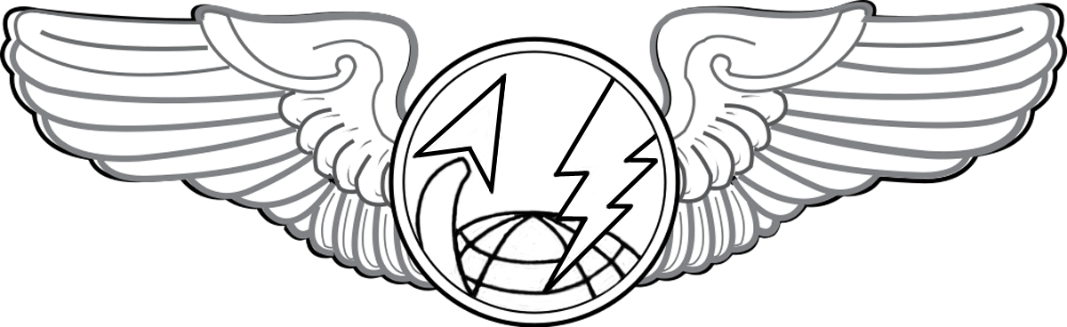 United States Air Force Sensor Operator Badge. Made with Photoshop.